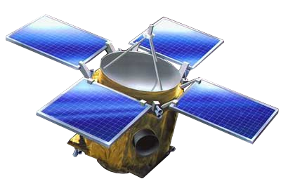 Artist's rendering, from NASA, of the NEAR Shoemaker spacecraft, in mission configuration. Originally christened the Near Earth Asteroid Rendezvous spacecraft, its mission was to investigate Near-Earth objects (NEOs), performing a flyby of the asteroid 253 Mathilde in 1997, and the very first in-orbit study of an asteroid in 1998 at 433 Eros. The mission was the first launched in the Discovery Program series of low-cost missions sanctioned by NASA.